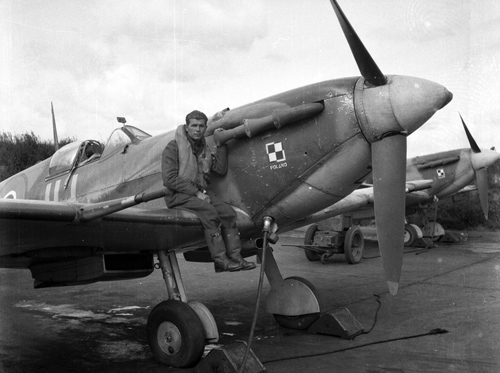 Marian Cholewka on Spitfire Mk. V, 317. SQN